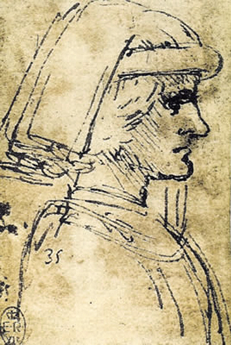 Lorenzo de Medici // Drawing in Codex Atlanticus, Milan, Biblioteca Ambrosiana